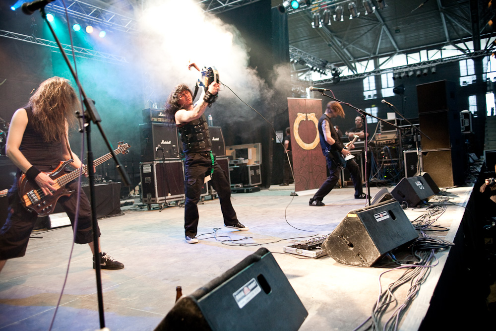 the german Melodic-Death-Metal-Band Suidakra performing live at the Ragnarök Festival 2010 in the Ostbayernhalle in Rieden/Kreuth.